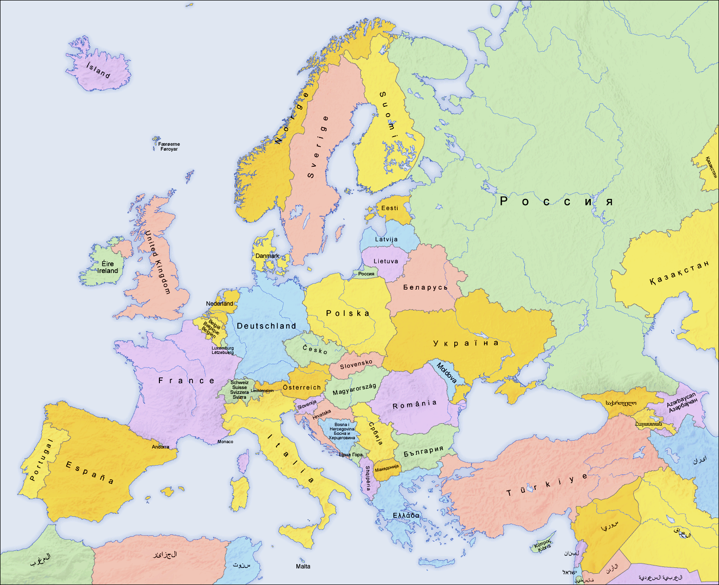 Map of countries in Europe and the surrounding region